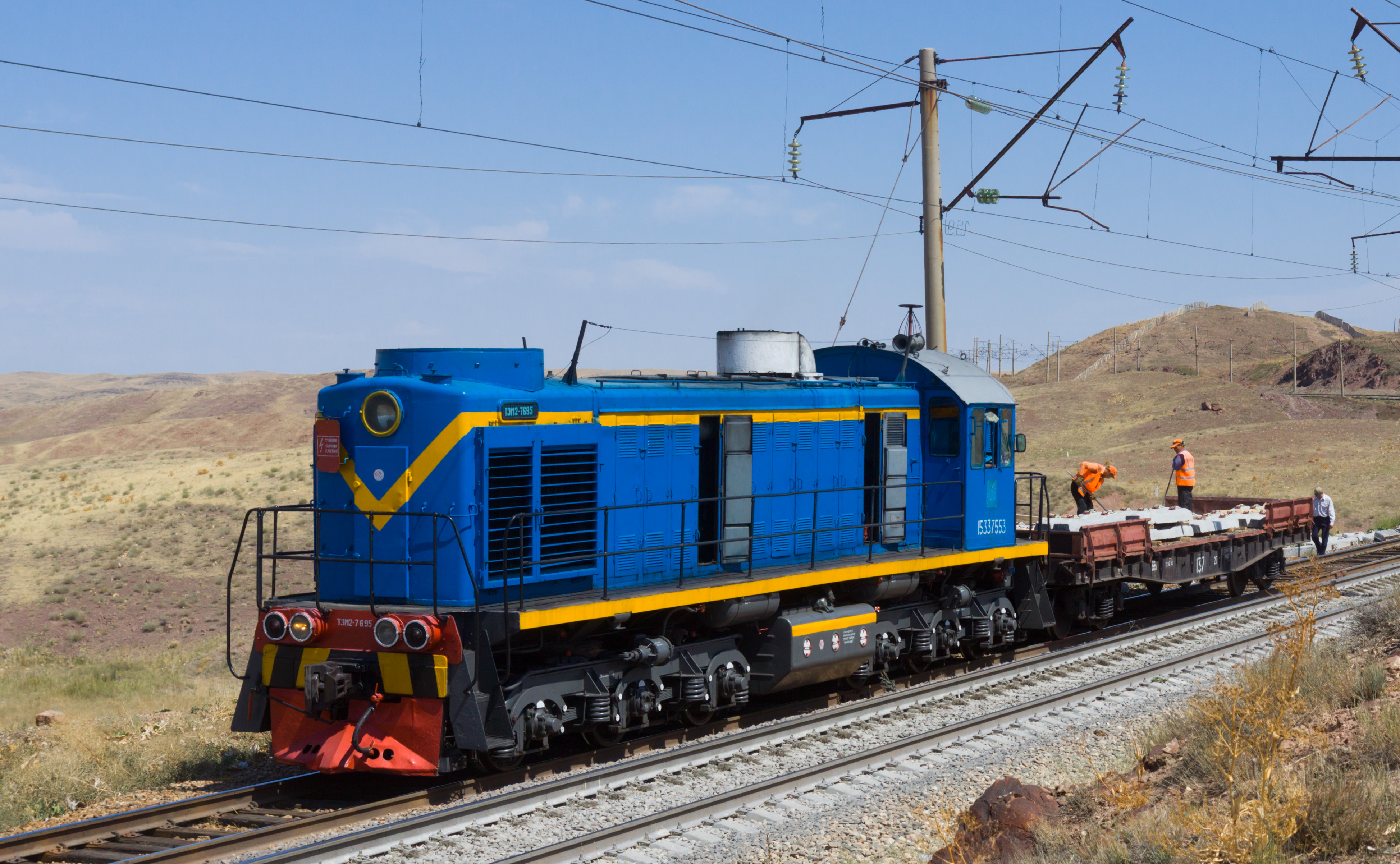 Kasachstan Temir Scholy class TEM2 "Tamara" between Chokpar and Ala-Aygir, Kazakhstan